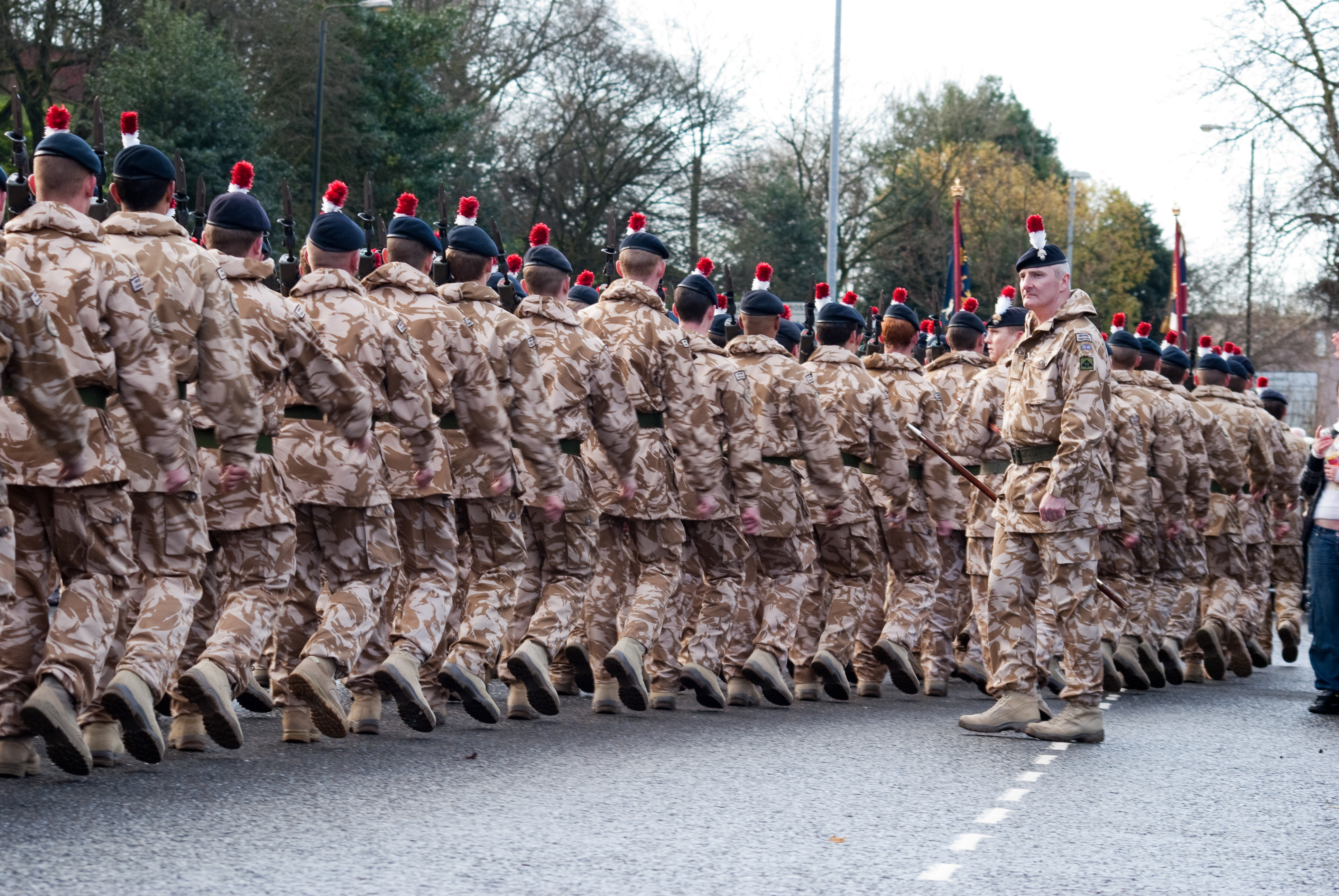 The Royal Regiment of Fusiliers in Rochdale, Greater Manchester, England.